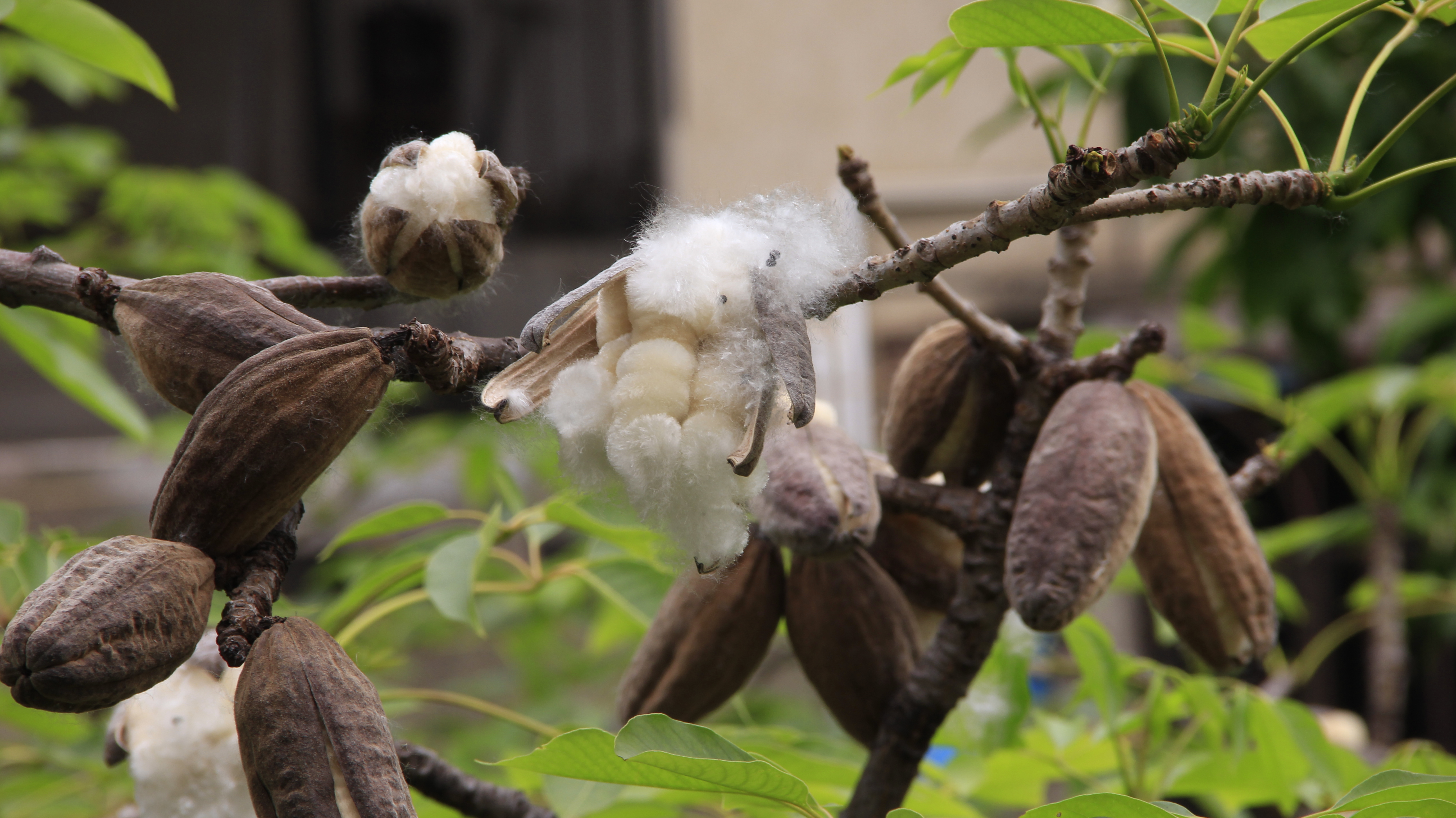 Taken through the balcony, WGS84: 24.48233,118.094171